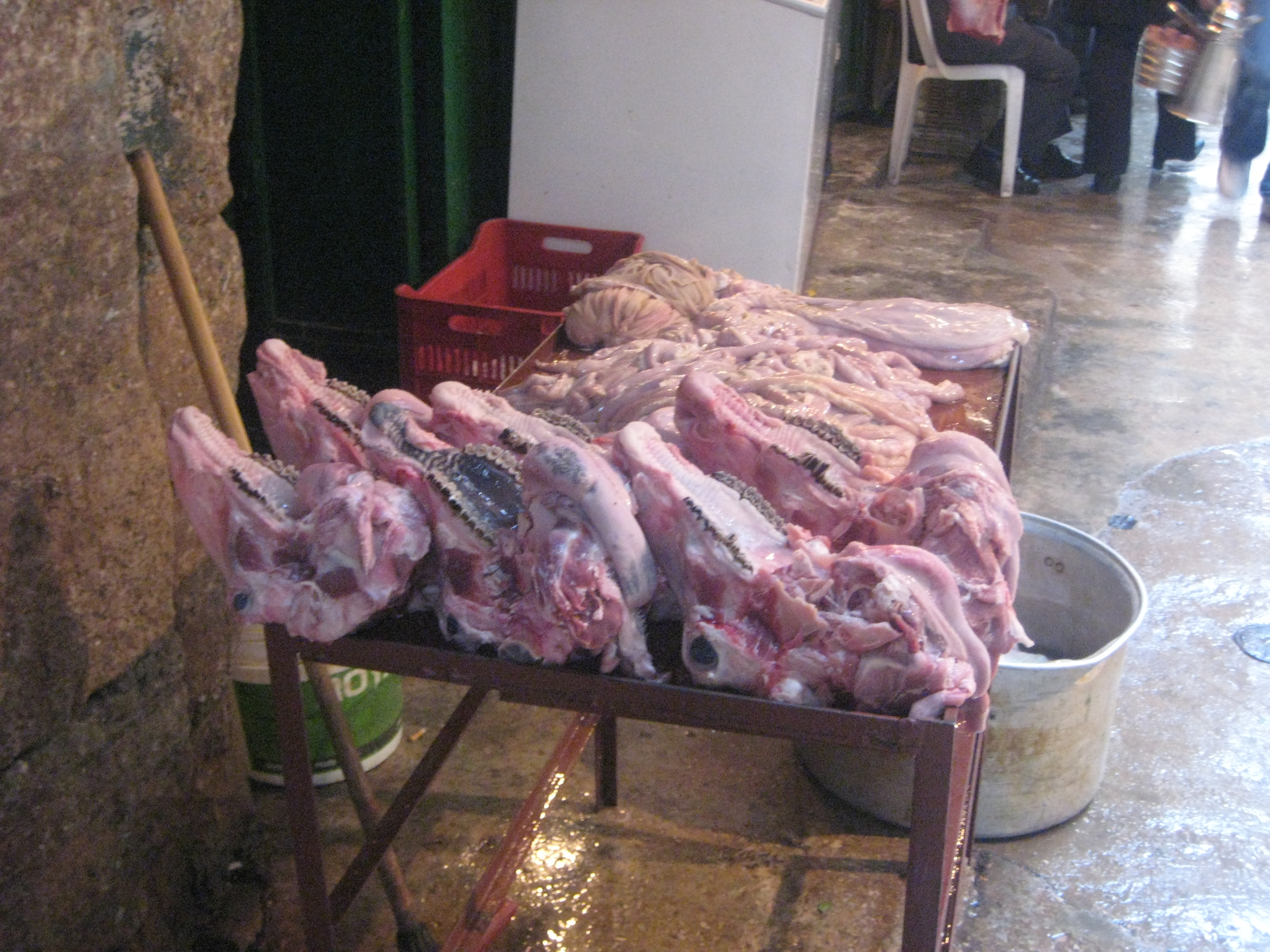 Sheep skull for sale in Tripoli, Lebanon